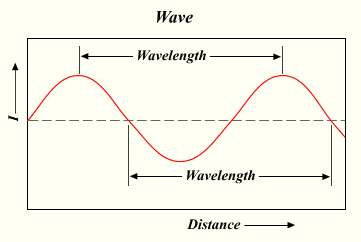 Illustration of the Wavelength of a sine